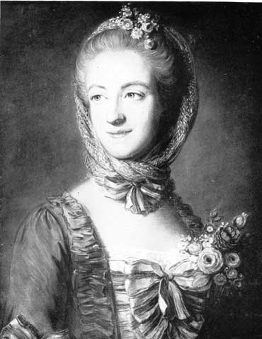 Mme Barthélémy-Michel Hazon, née Marie-Madeleine de Malinguehen